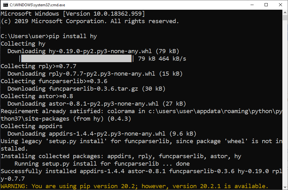 Installation of Hylang (Lisp dialect ) in Command Prompt using PIP package manager. PIP package manager allows downloading python packages and modules , and can be used via CMD (created by Microsoft Corporation )